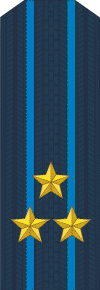 Prosecutor of Ukraine